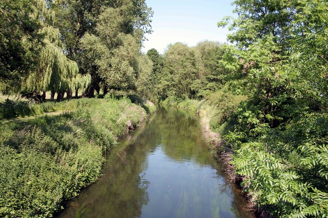 River Idle Looking towards Retford the river Idle. This is taken off the B6387 narrow bridge at Gamston.